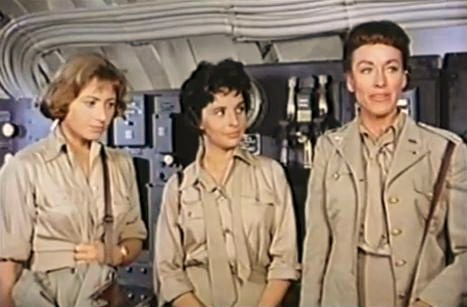 L. to R. : Marion Ross, Madlyn Rhue & Virginia Gregg in Operation Petticoat - trailer (cropped screenshot)